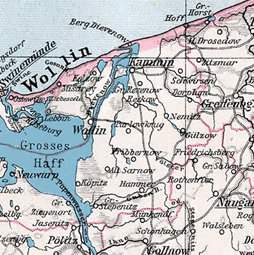 Detail from a map of Pomerania.